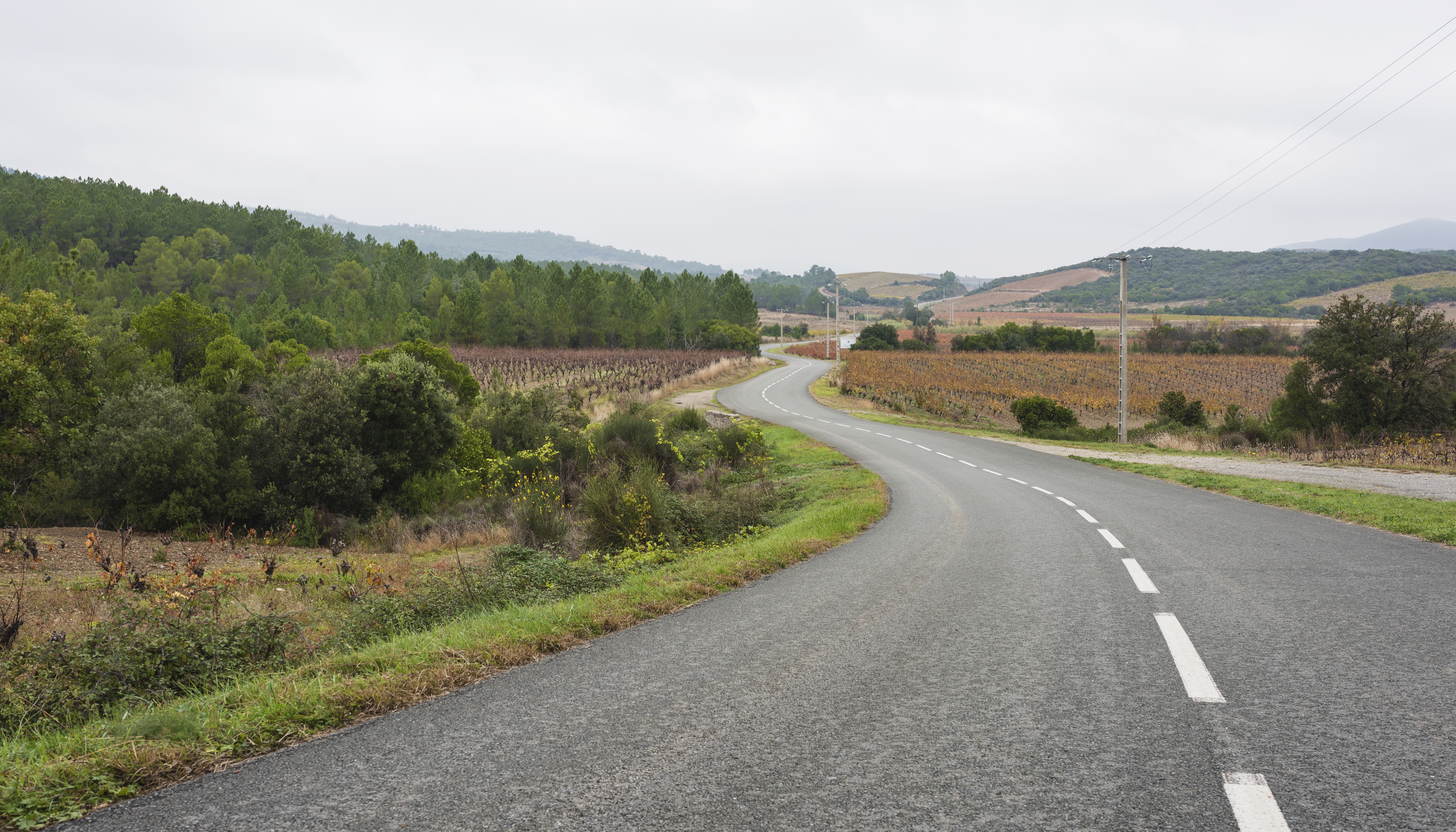 The departmental road D177, surrounded by the vineyards of the AOC Saint-Chinian, in the commune of Prades-sur-Vernazobre, Hérault, France.